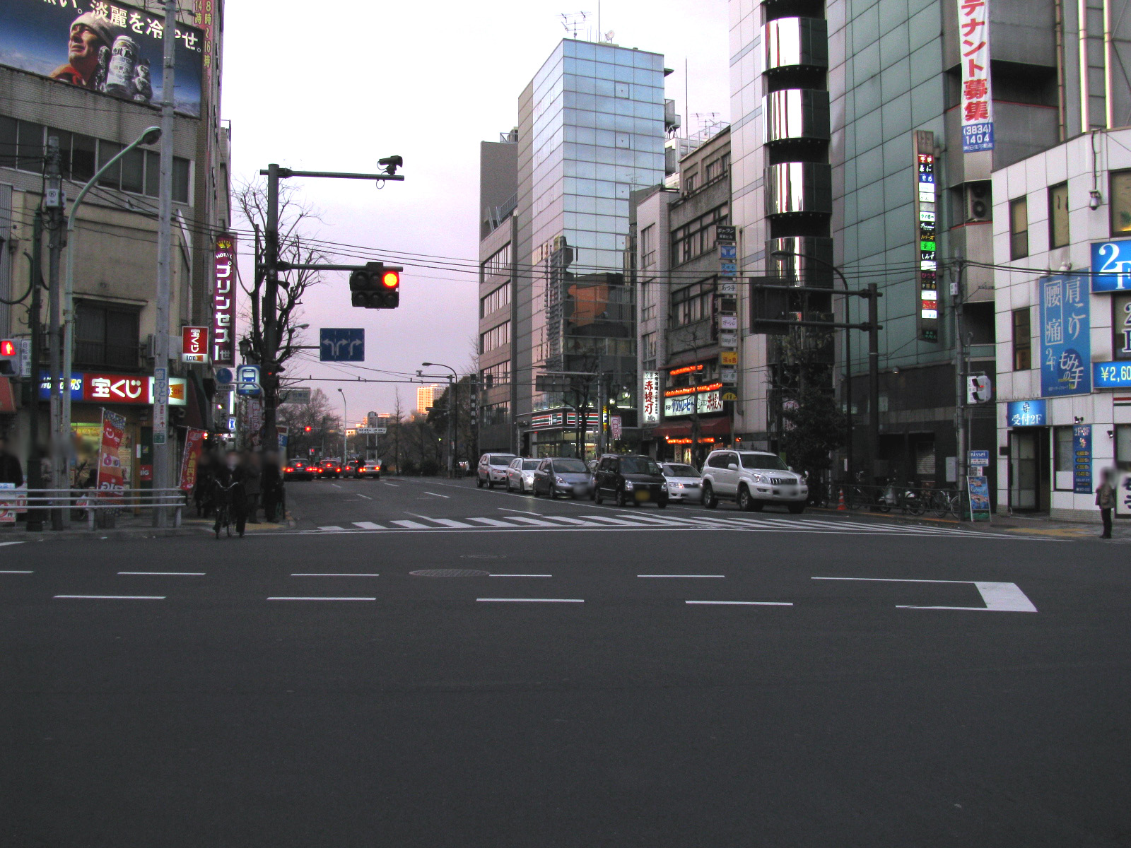 Yushima station